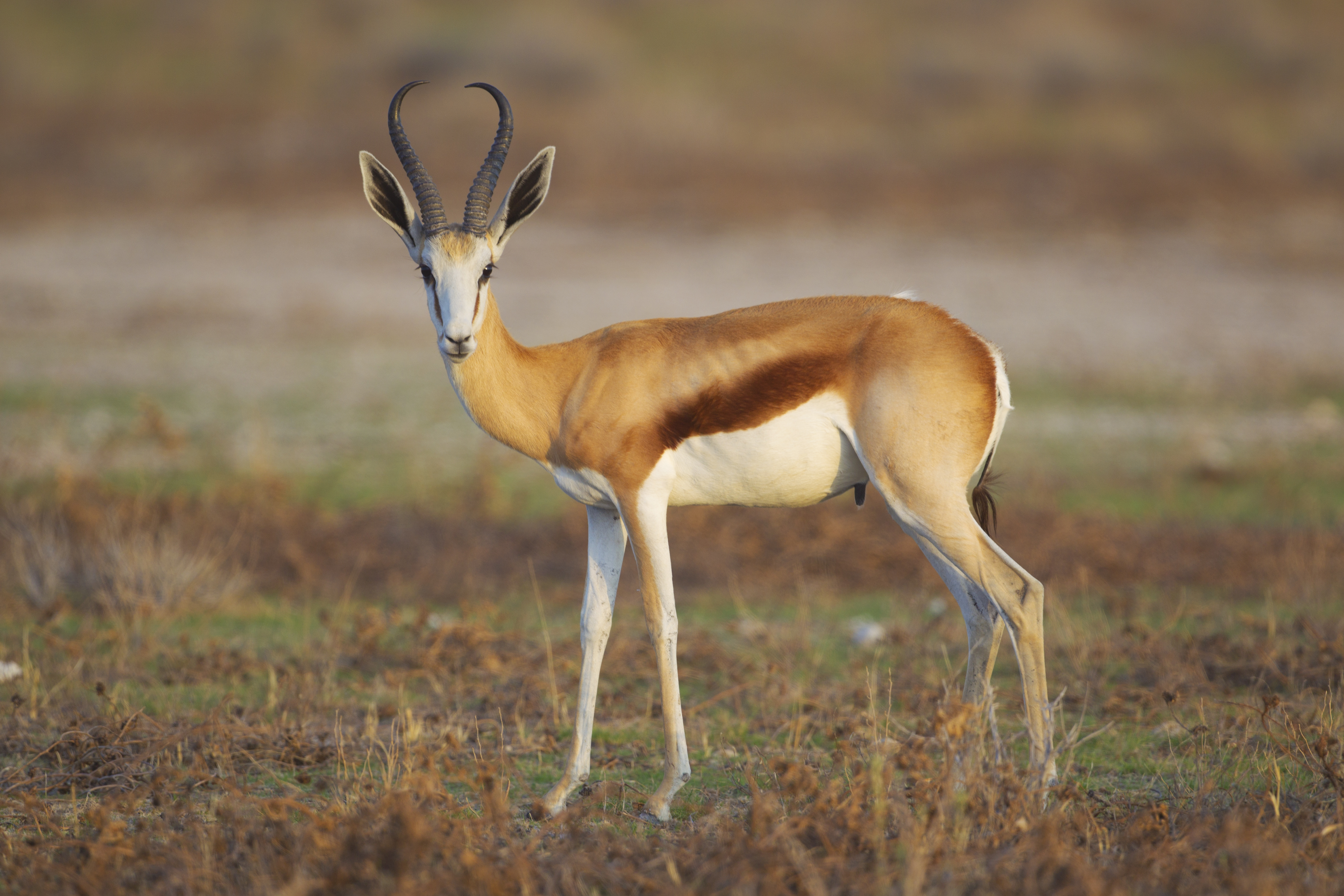 Adult springbok (Antidorcas marsupialis) male in Etosha National Park